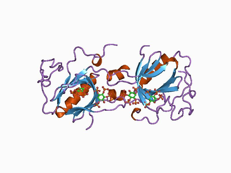 Cartoon representation of the molecular structure of protein registered with 1bwn code.